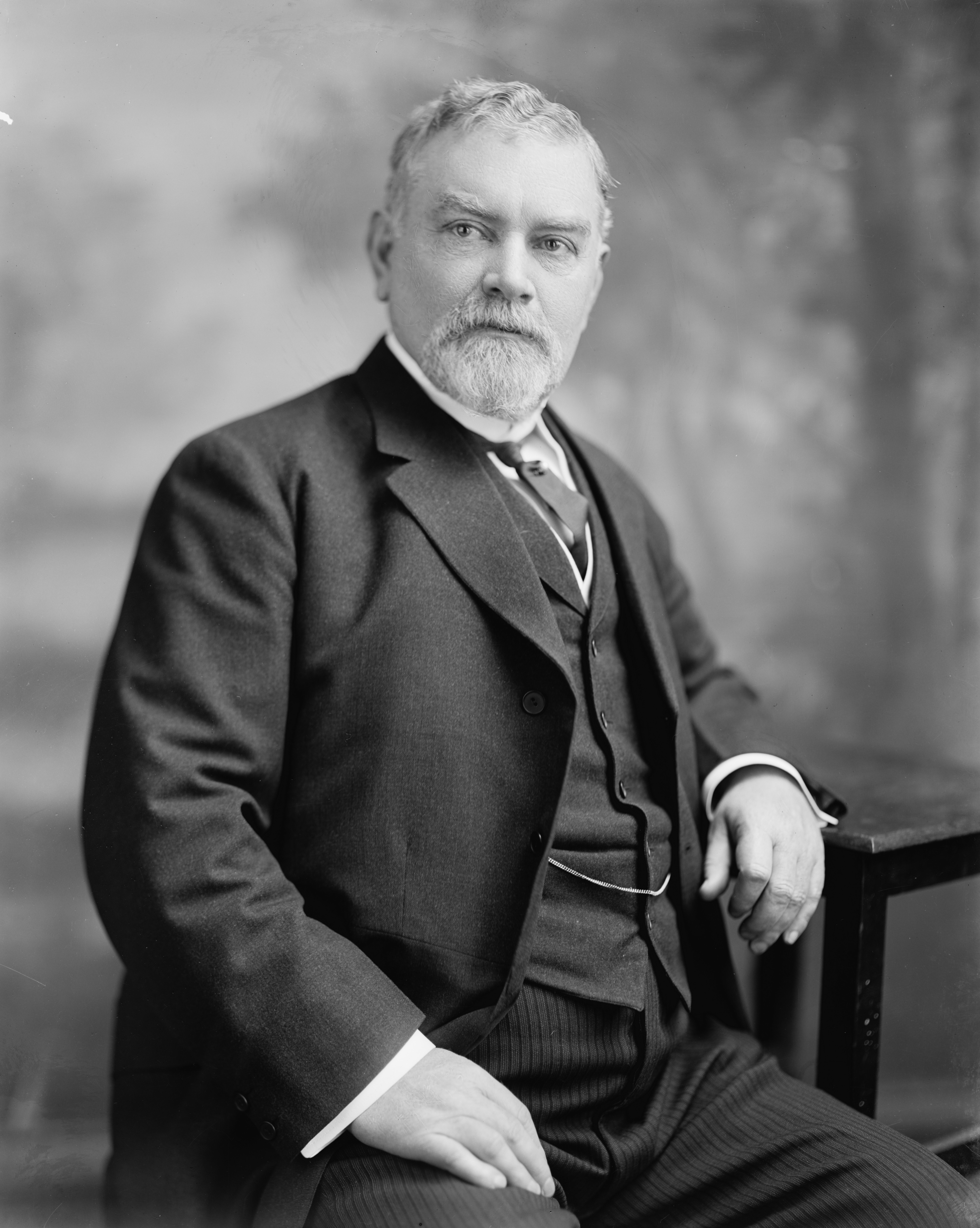 Title: O'GORMAN, J.A. SENATOR Abstract/medium: 1 negative : glass ; 8 x 10 in. or smaller